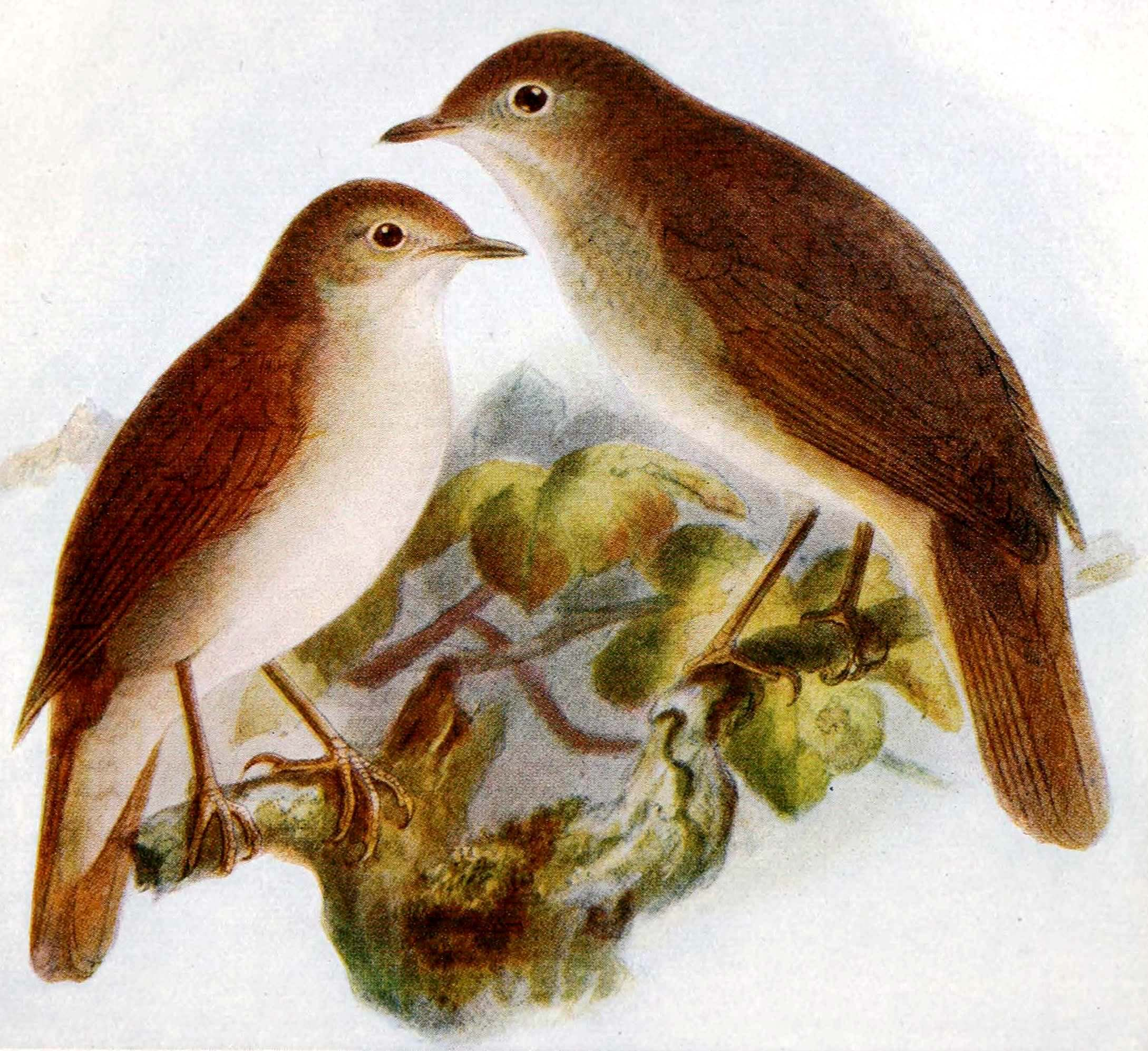 Luscinia megarhynchos. Lewis Bonhote